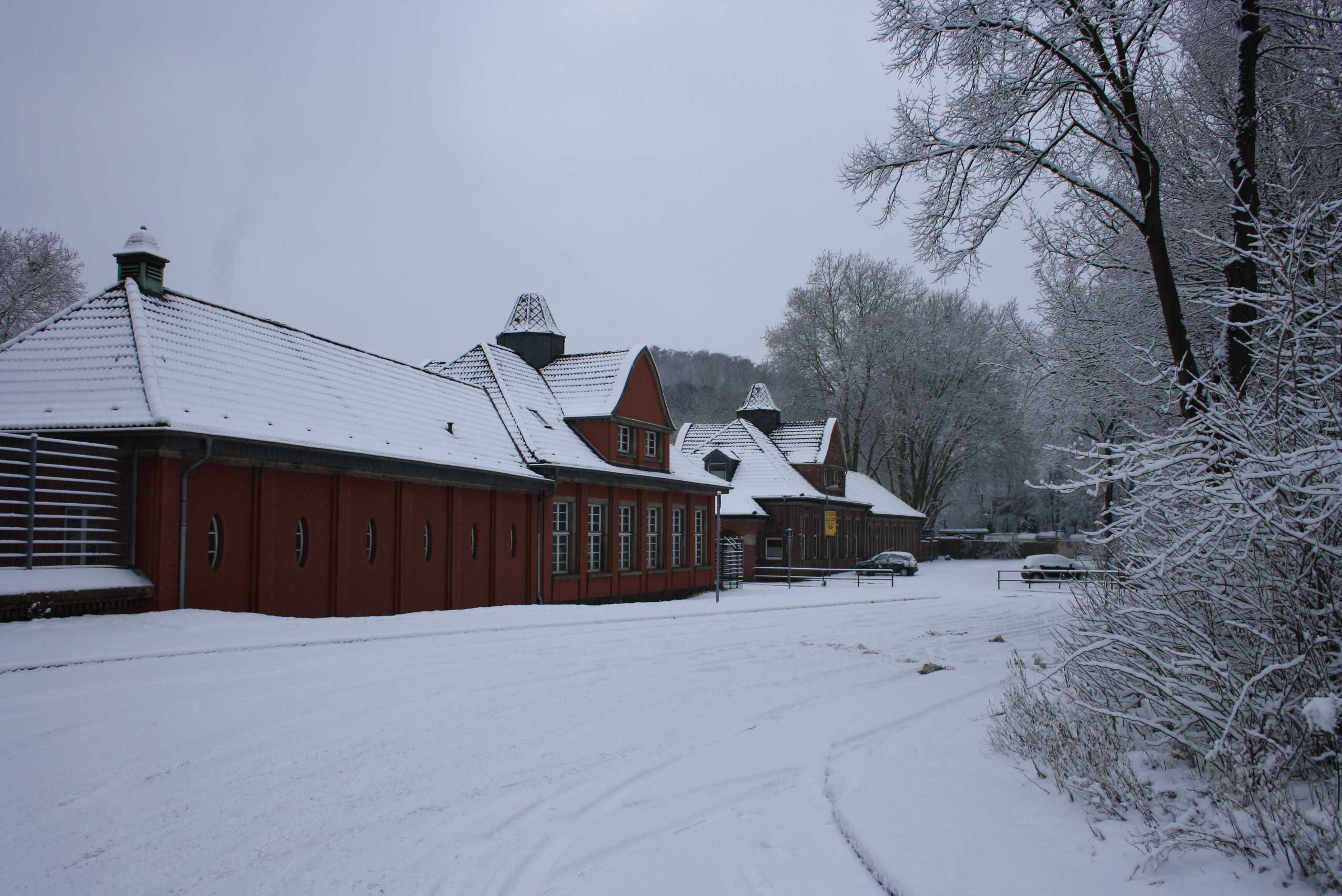 winterimpressions of the Oberhausen Knappenviertel